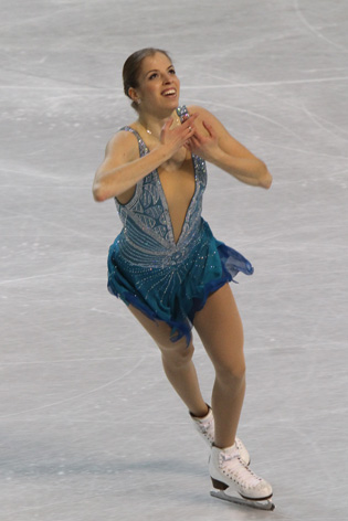 Carolina Kostner at the 2010 European Figure Skating Championships.